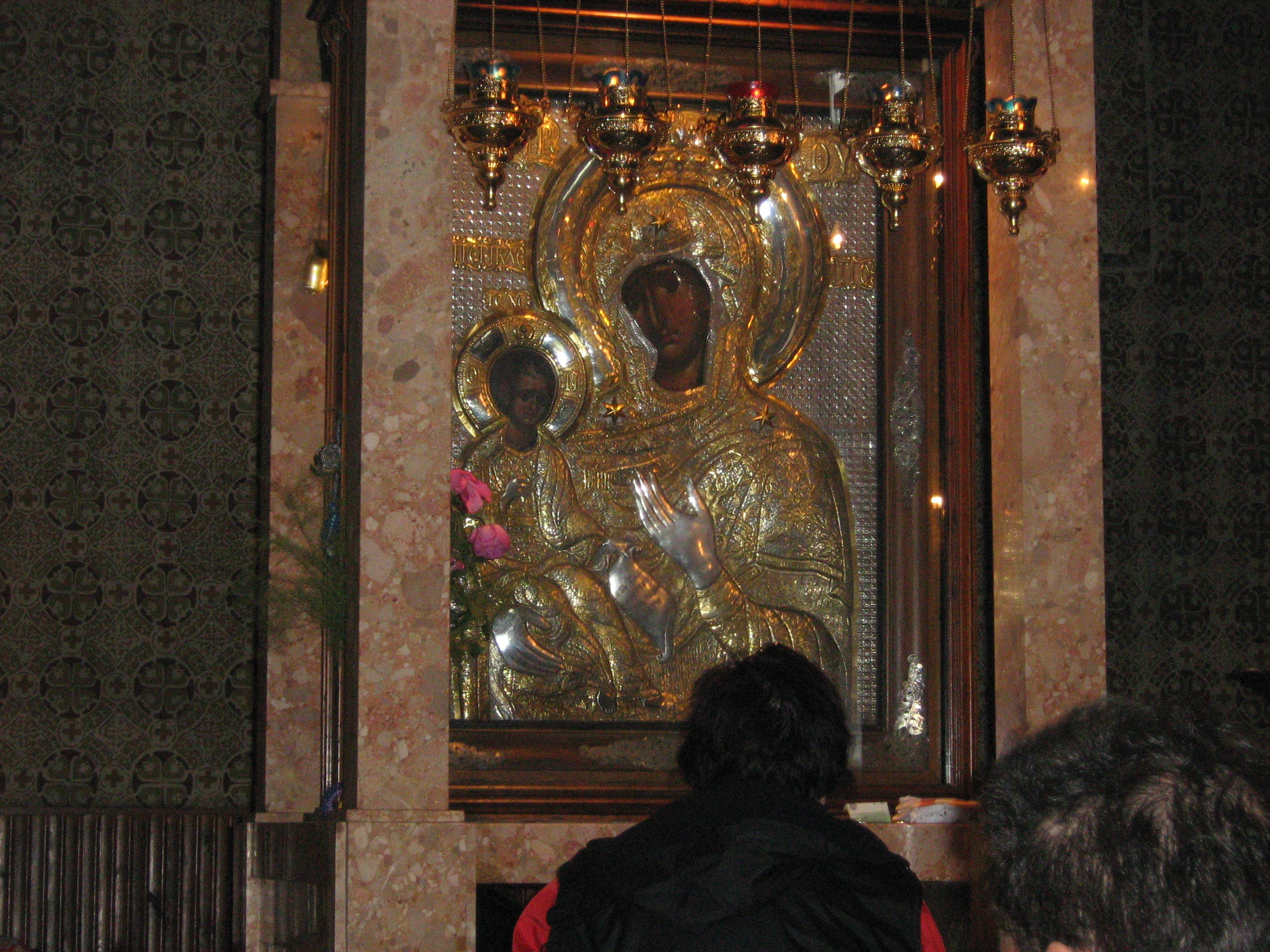 Icon Our Lady of Čajniče, Čajniče, Republic of Srpska